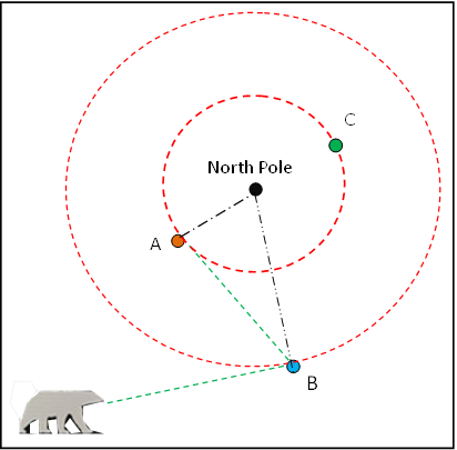 Polar Bears are Dangerous